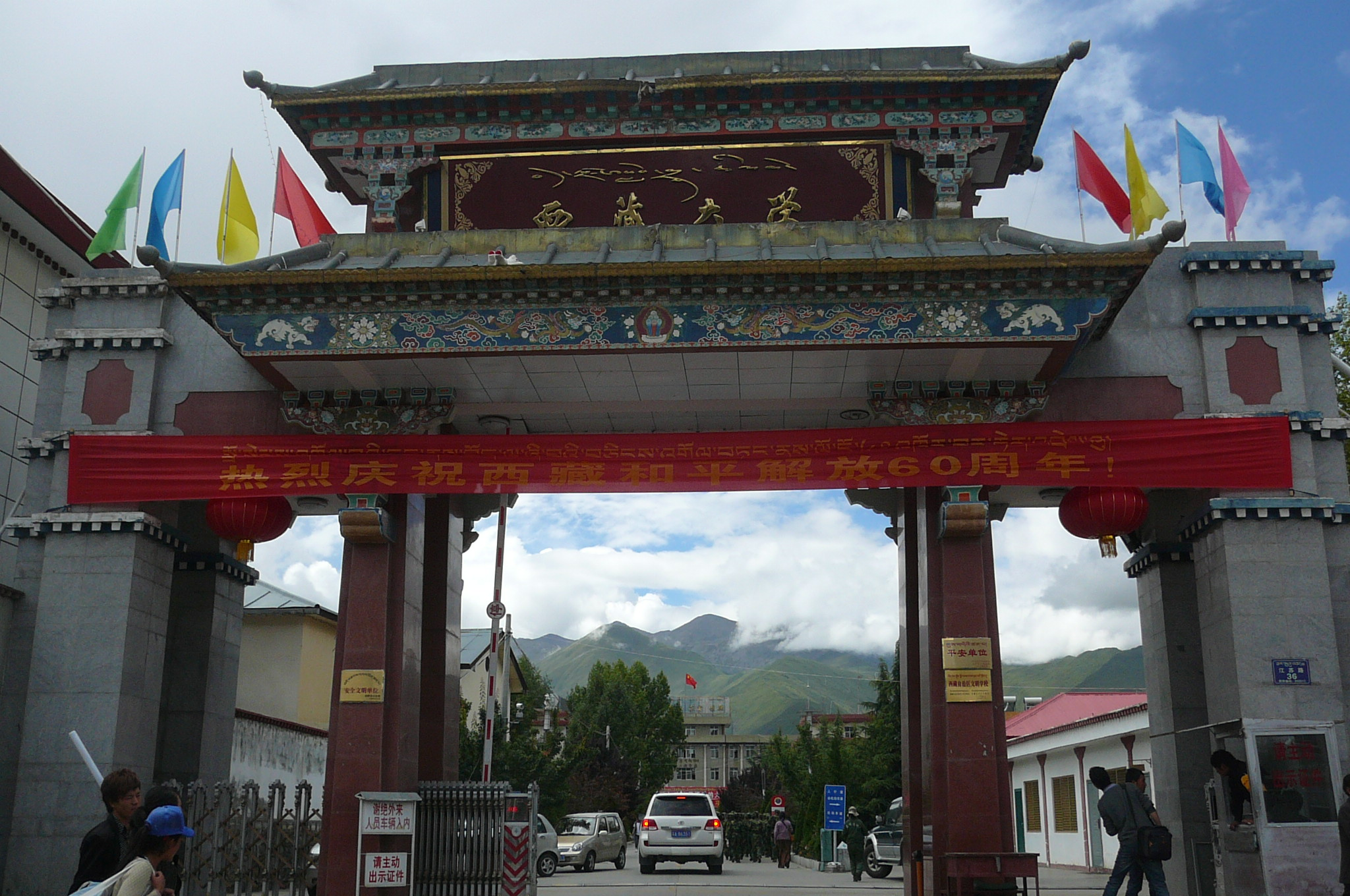 Main gate of Tibet University